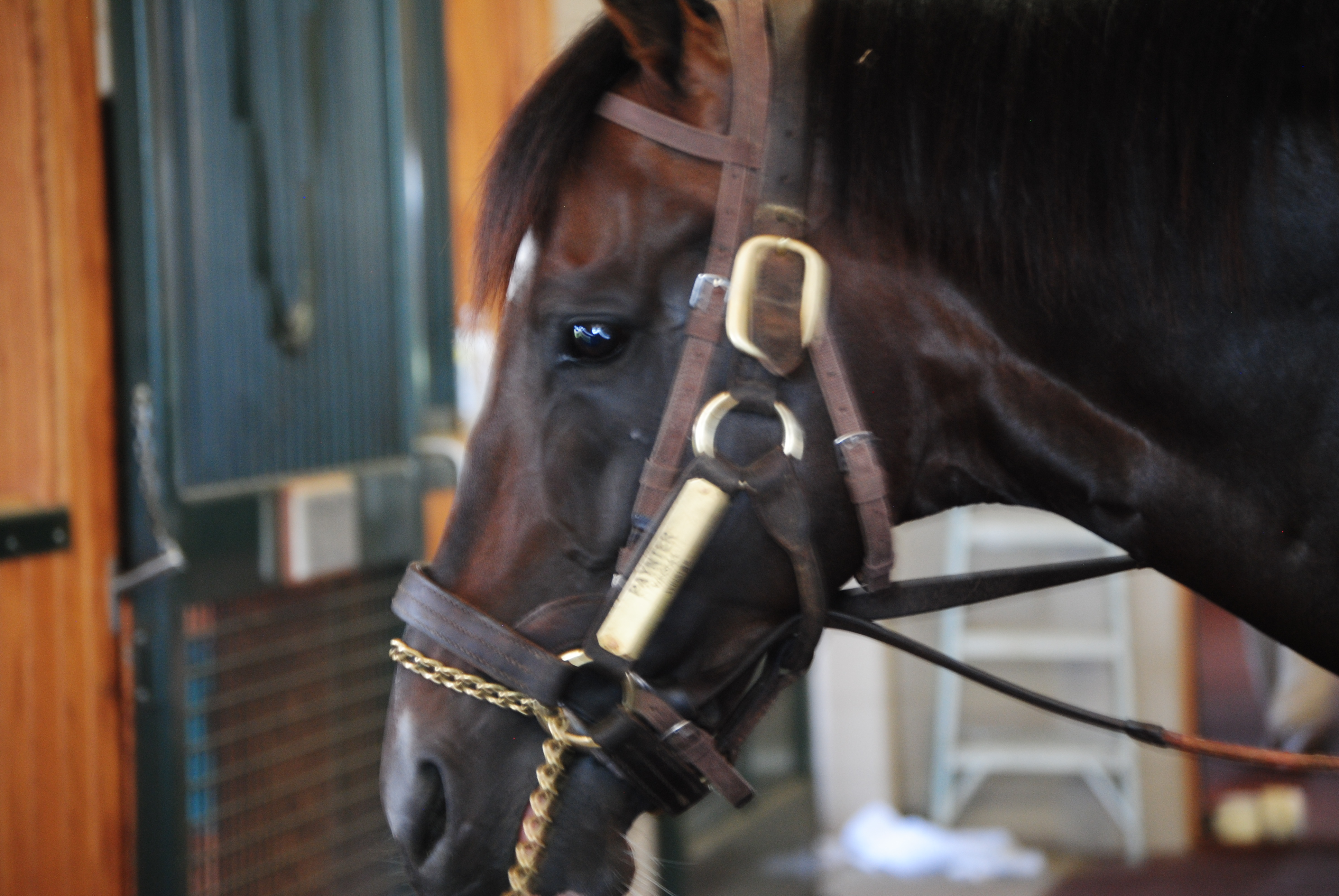 Paynter getting ready for his daily outing. July 2015, Winstar Farms